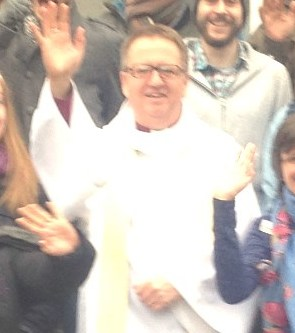 Alan Winton, Bishop of Thetford, with others